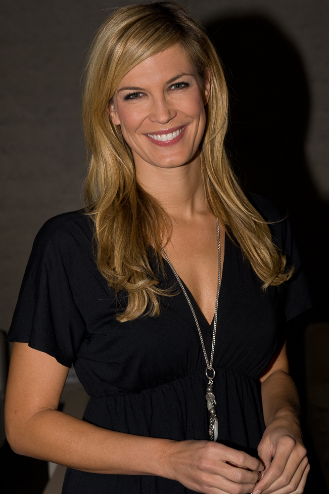 Verena Wriedt, News presenter